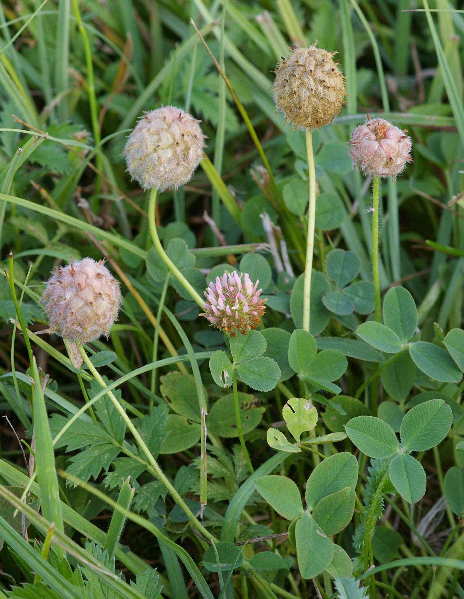 Flowering and fruiting Strawberry clover, Trifolium fragiferum ssp. fragiferum.